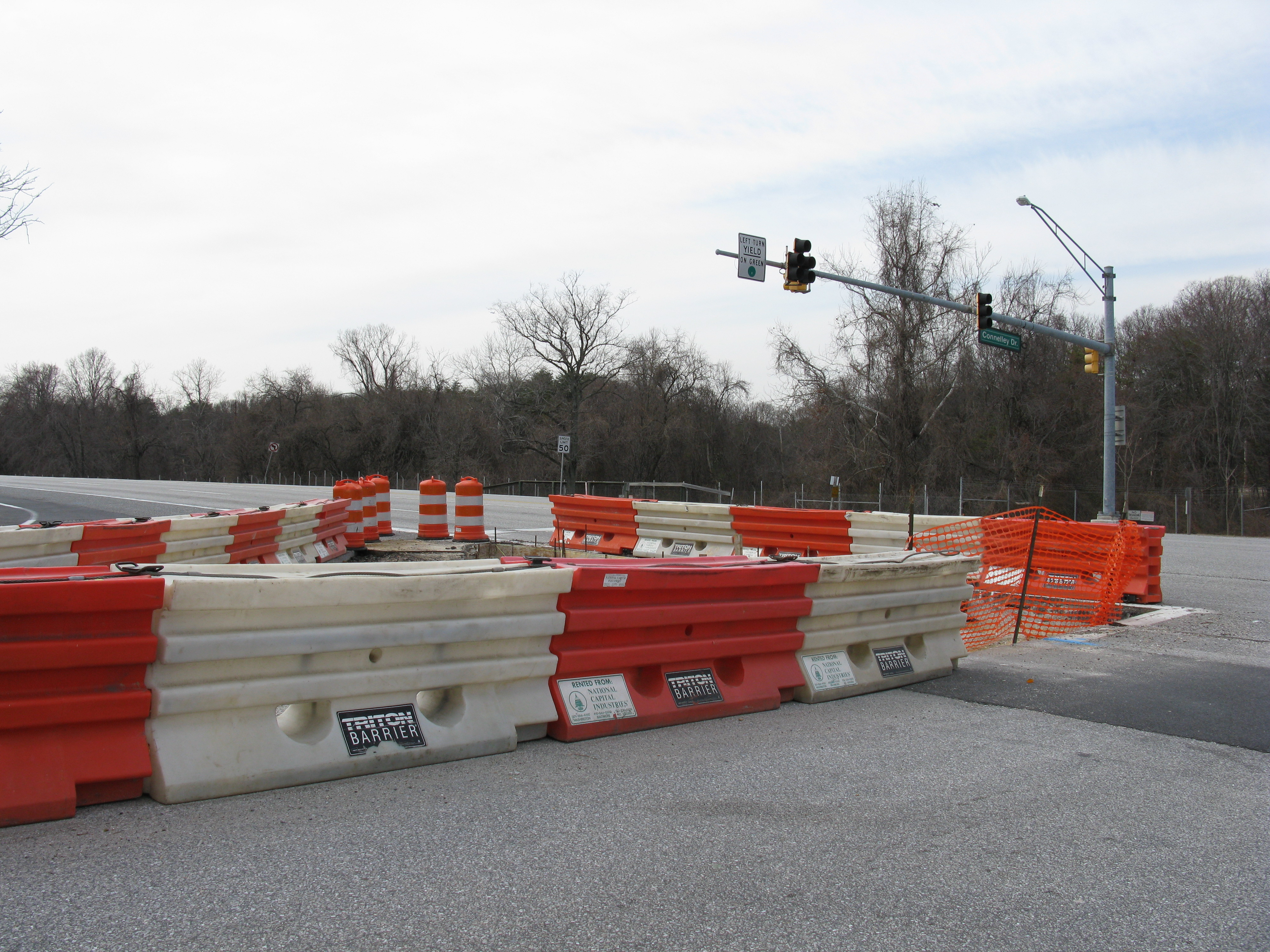 Traffic barriers in place at the intersection of MD 176 and Connelly Drive, Hanover, Maryland